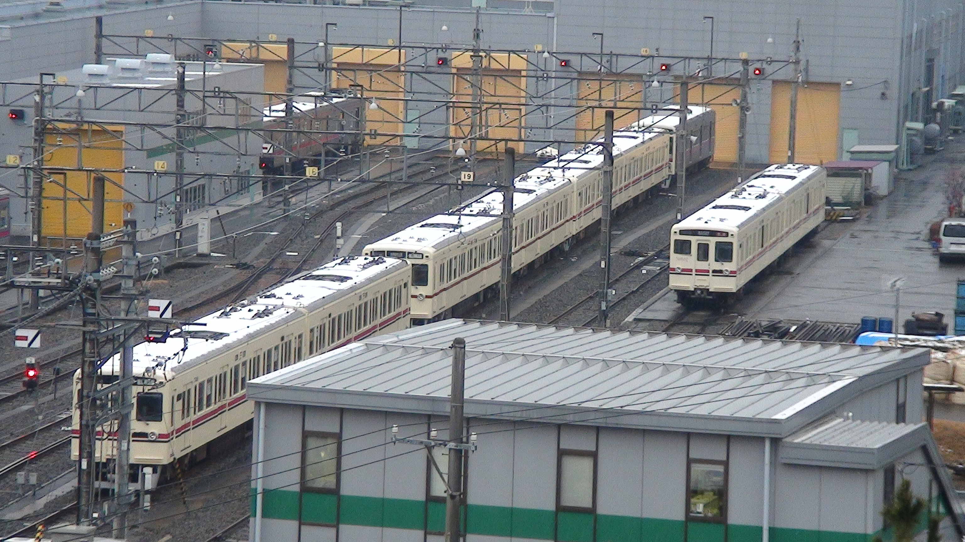 Scapping Keio 6000 at Wakabadai